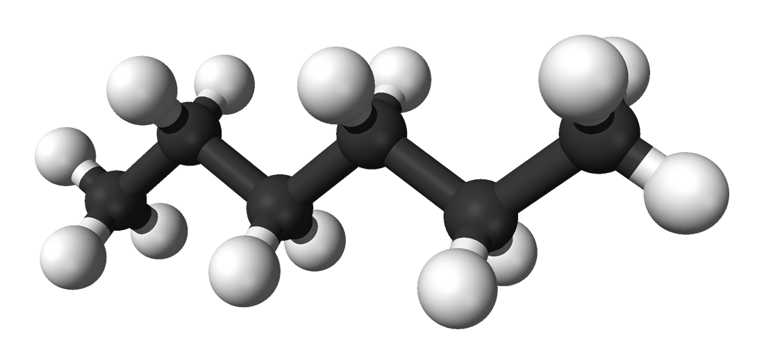 Ball-and-stick model of the hexane molecule